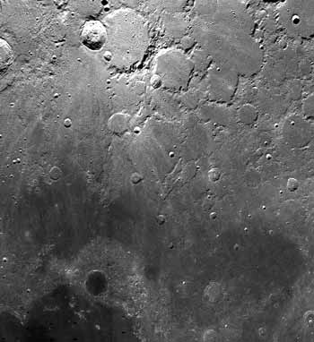 Mare Frigoris is located just north of Mare Imbrium, and stretches east to north of Mare Serentatis. The mare is in the outer rings of the Procellarum basin. The basinmaterial surrounding the mare is of the Lower Imbrian epoch, while the eastern mare material is of the Upper Imbrian epoch, and the western mare material is of the Eratosthenian epoch. The mare appears as darker grey material in the lower section of the photo below. The dark circular feature just to the south of Frigoris is the crater Plato. You can just make out the crater Aristoteles as a lighter grey circular feature to lower right-center of the photo, and south of Frigoris.